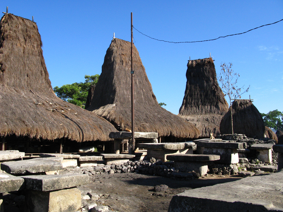 Traditional houses in Tarung-Waitabar, Waikabubak, West Sumba, Indonesia